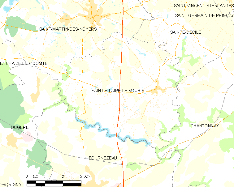 Map of French municipality Saint-Hilaire-le-Vouhis